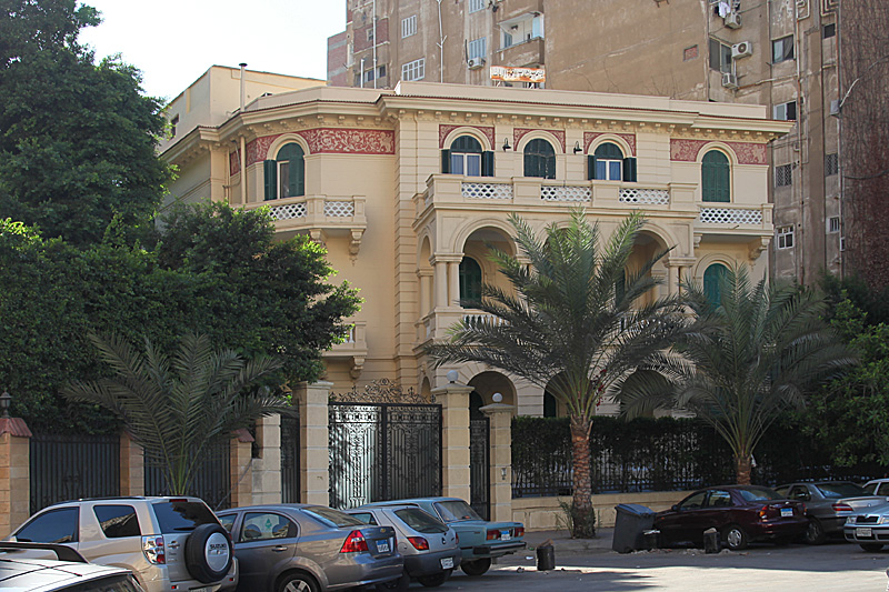 M. de Botton / Dr. Ibrahim Abd el-Sayed Pasha apartment building near the Royal Jewelry Museum, Alexandria, Egypt